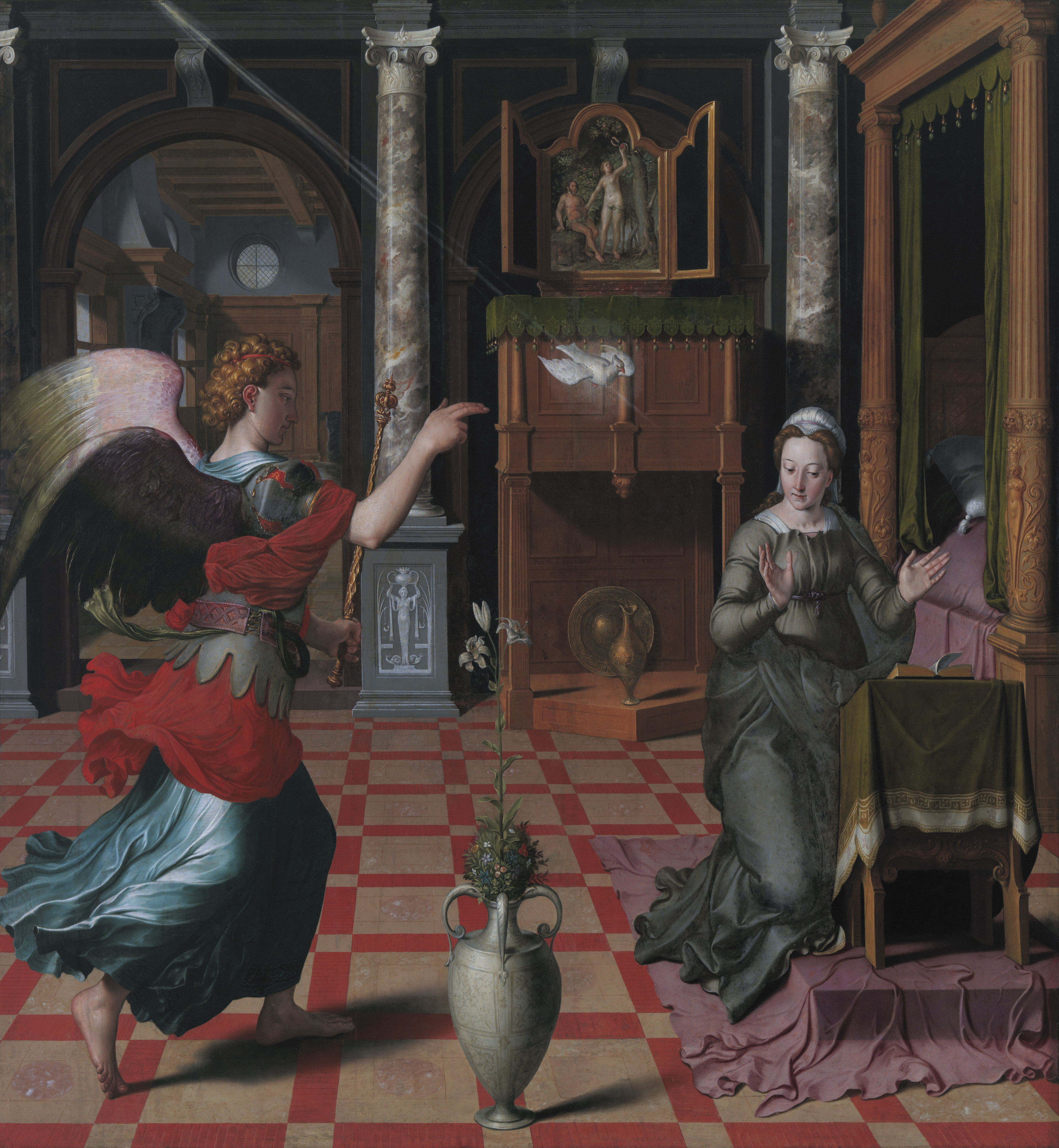 The Annunciation (interior of left wing) oil on panel 117 x 112 cm signed c.: 1552 / PETRVS POVRBUS ME FECIT